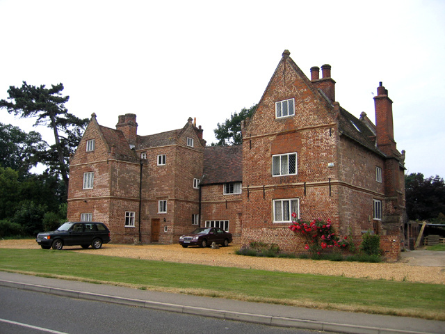 The Burystead manor house, Wilburton, Cambs. is a late Elizabethan house of brick erected about 1610; located on Station Road with the frontage facing east.